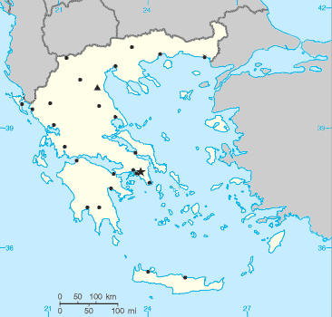 2nd version Cropped black edging at bottom and righthand side. current version Removed arrow, Fixed Evia, and added city dots.